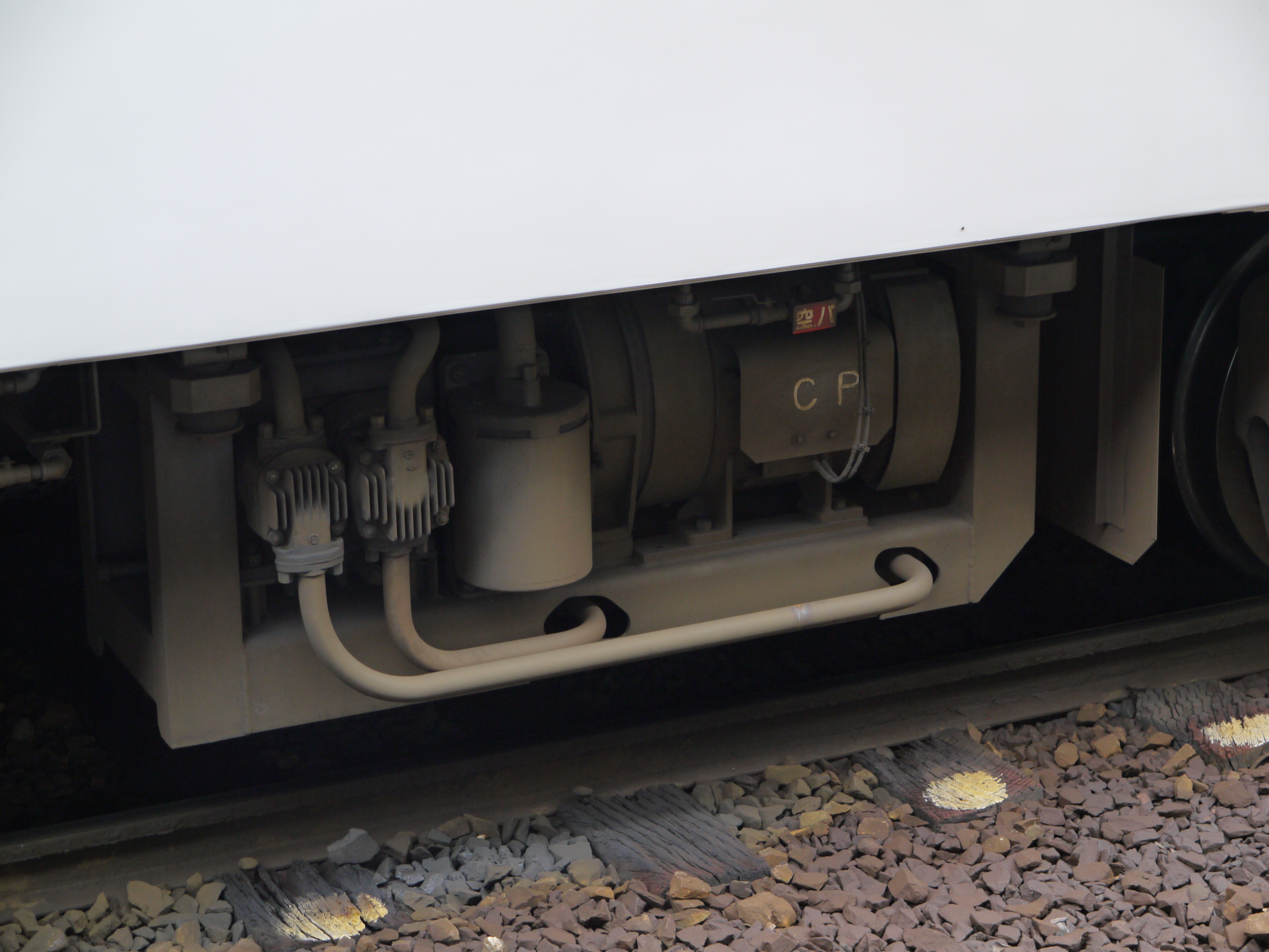 HB1500B air compressor on Eizan Electric Railway Deo 902